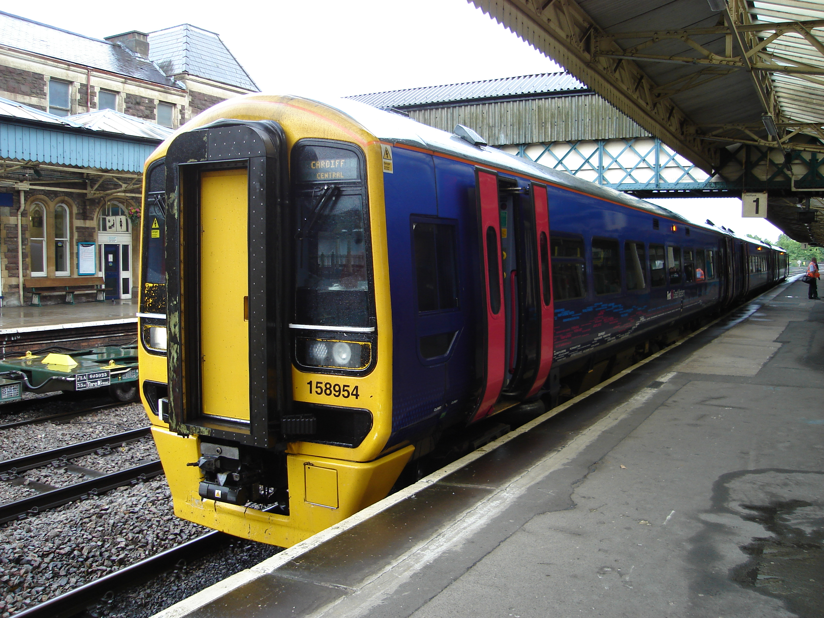 158954, a British Rail Class 158, at Newport Station